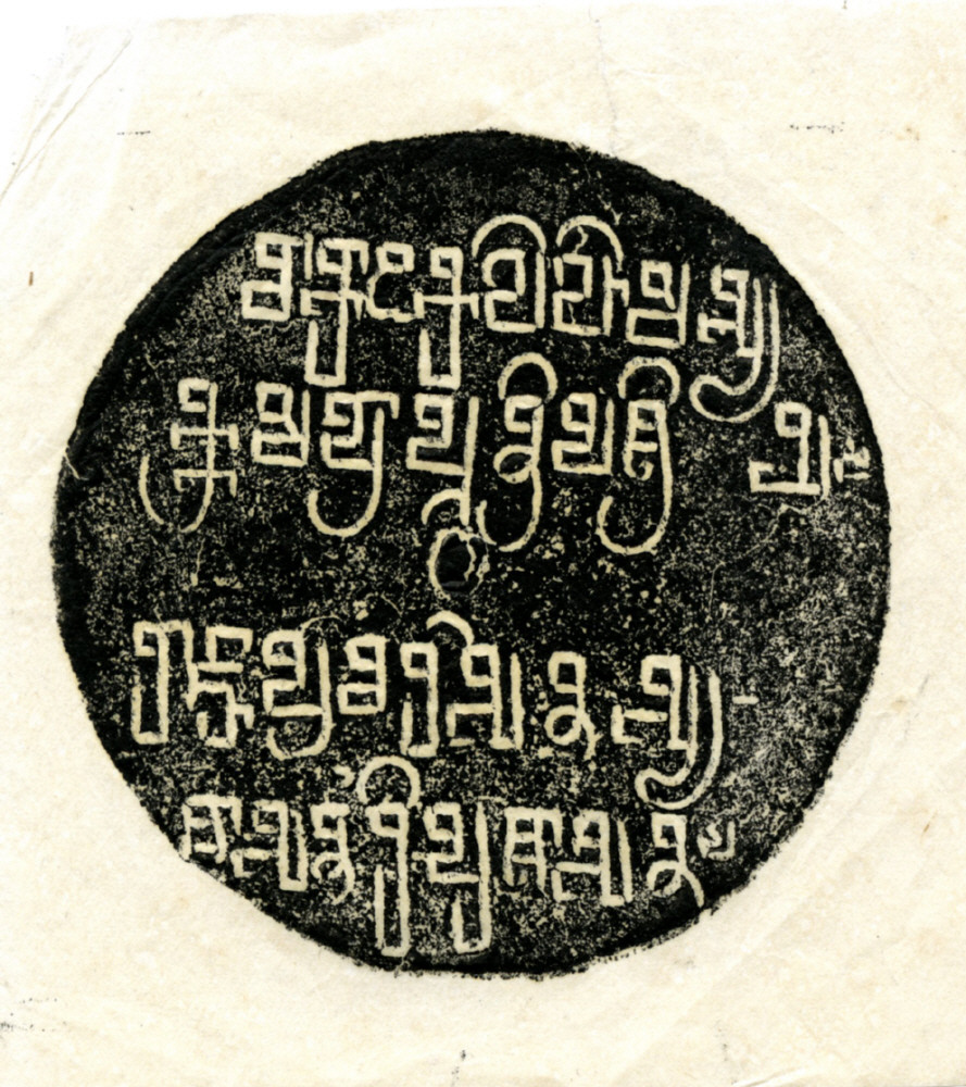 Seal of the Tirodi charter of Pravarasena II